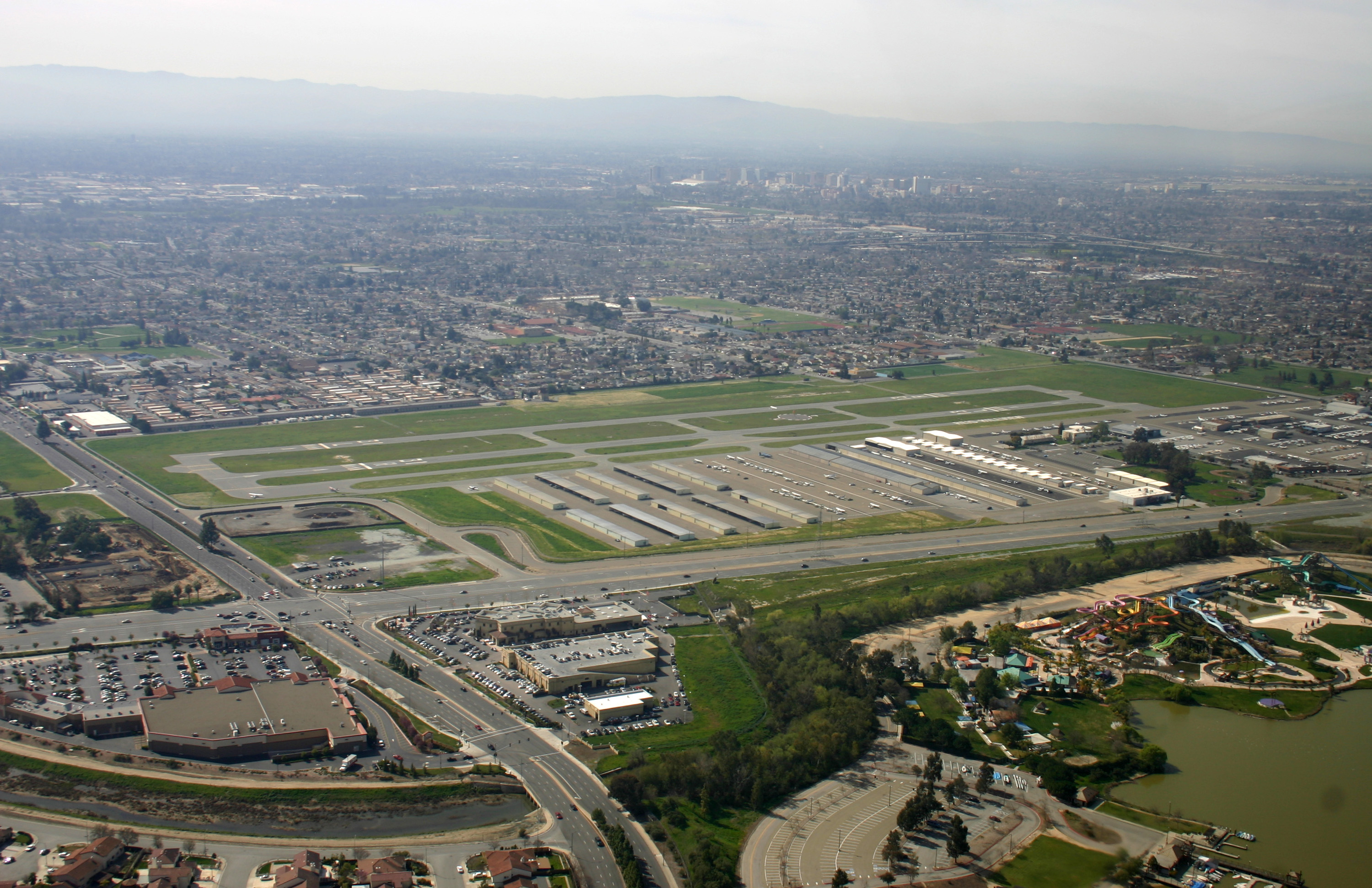 Reid-Hillview Airport in San Jose